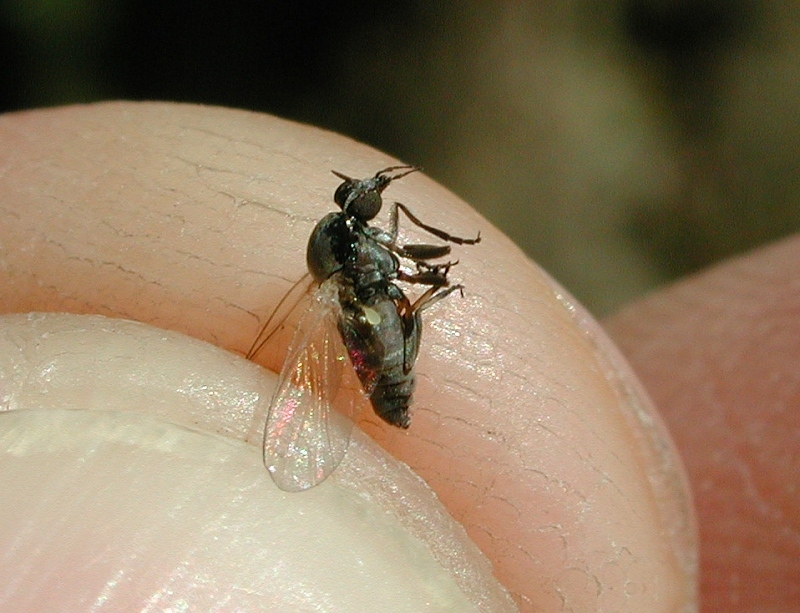 Simuliidae species, Nidda, Frankfurt/Main, Germany